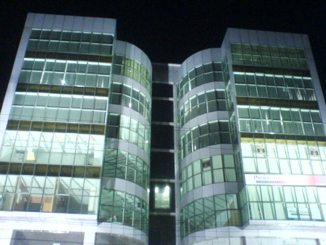 ONGC India Ltd, Kakinada Branch office